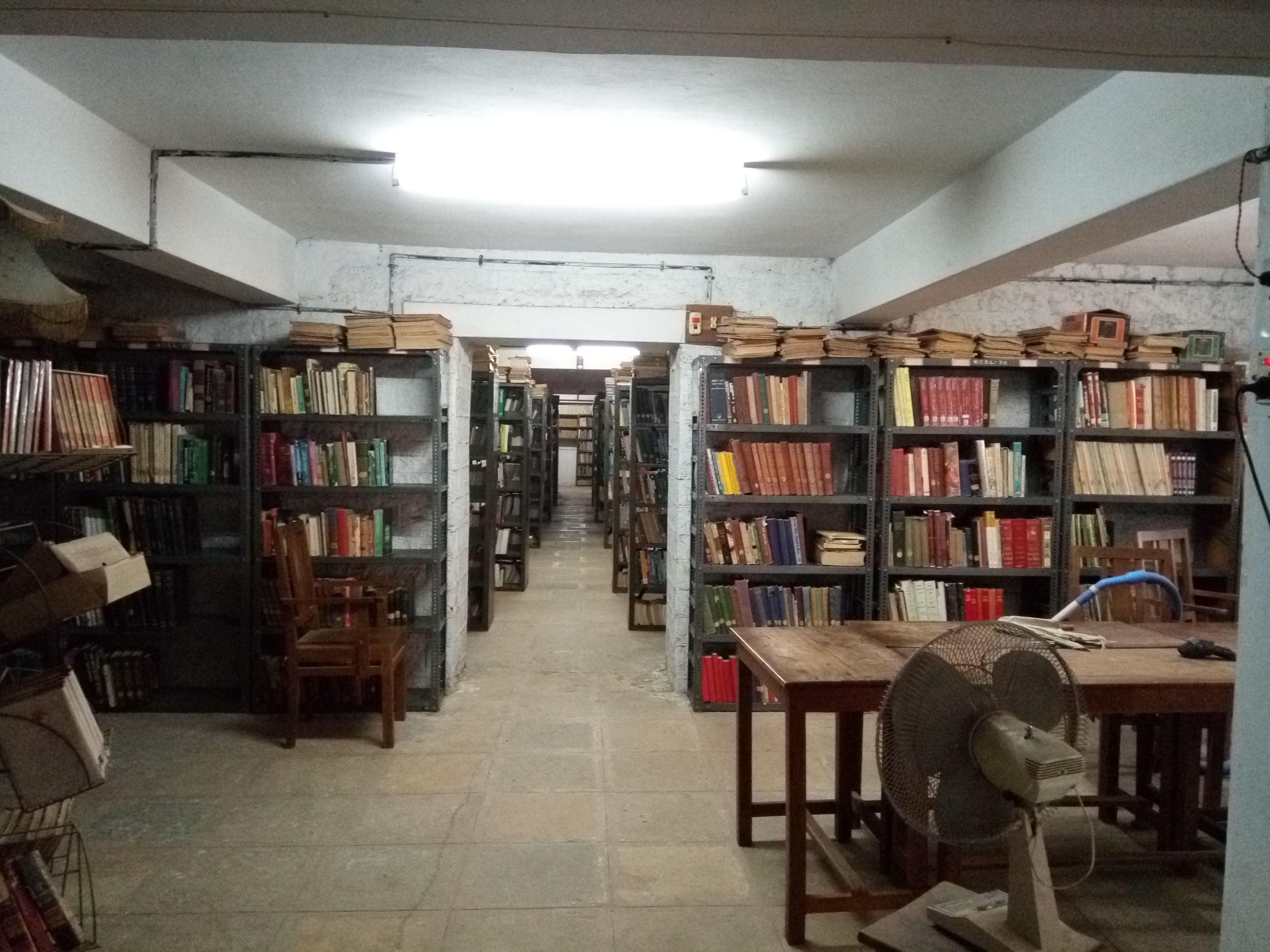 Willingdon College Library